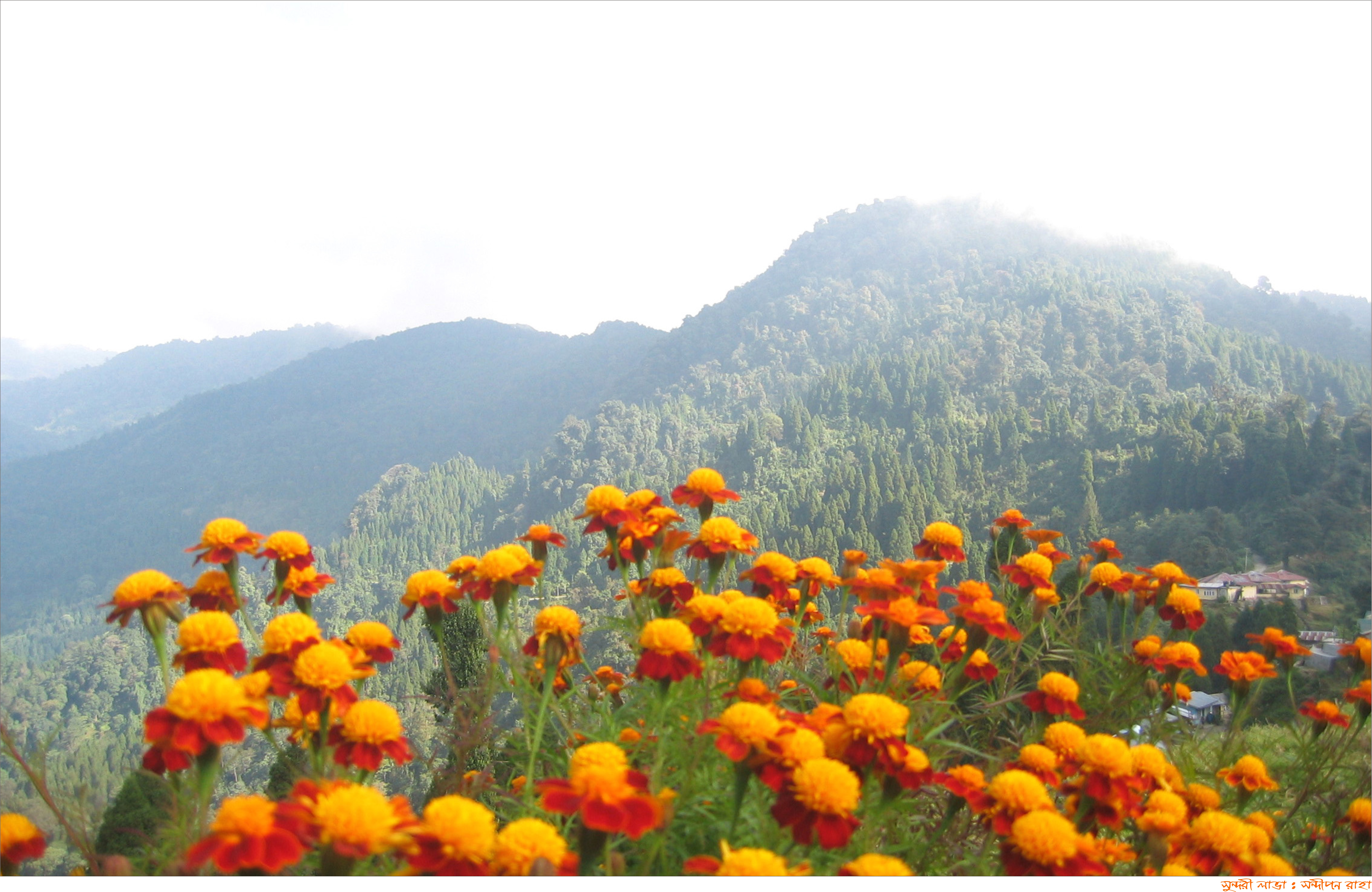 Rache La from Kagyu Thek Chen Ling Monastery Year: 2009 Photo Copyright : Sandipan Raha